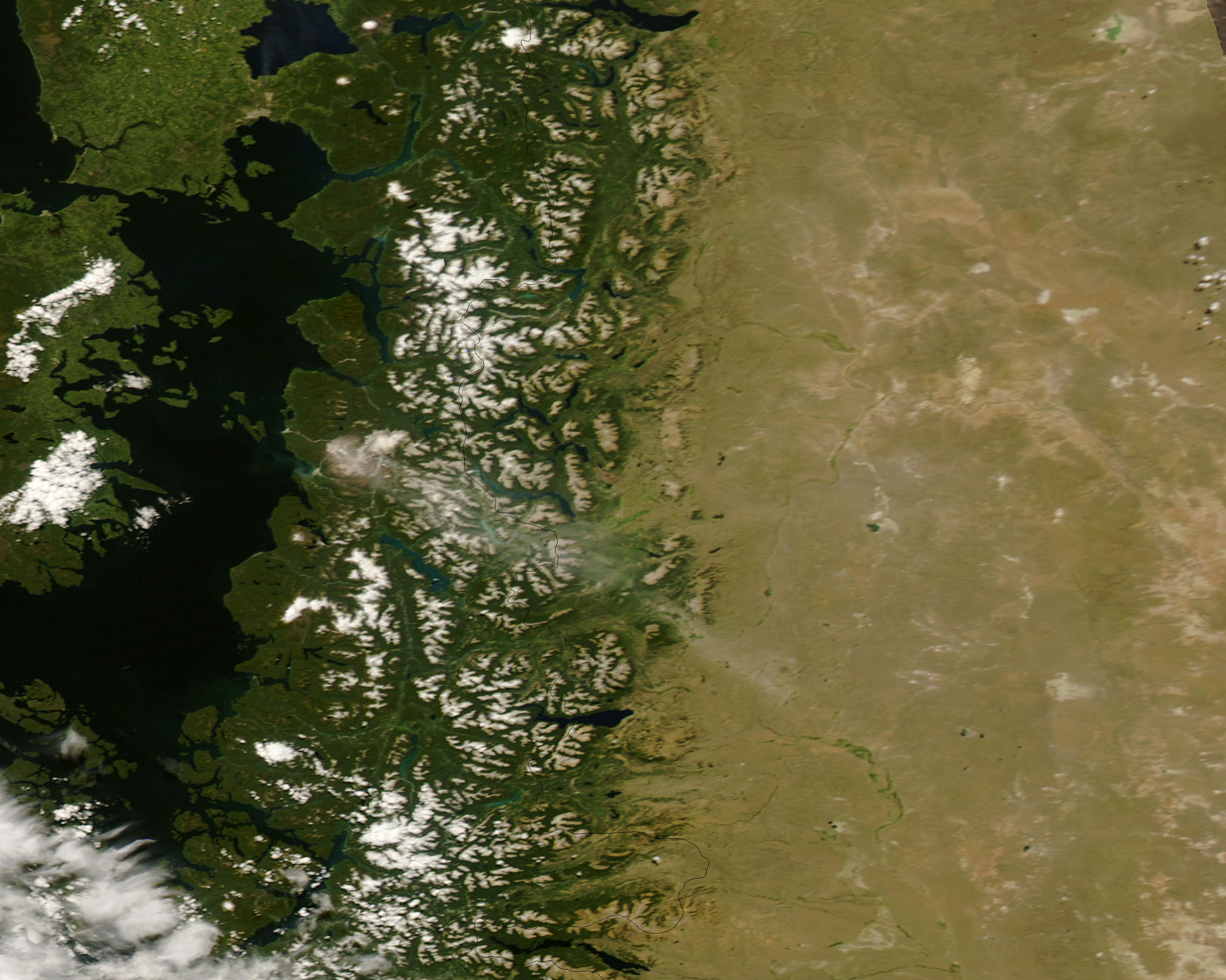 Imagem do Moderate-Resolution Imaging Spectroradiometer (MODIS) instalado no satélite Aqua (EOS PM-1) da Nasa em 14 de dezembro de 2008. Na imagem uma pluma de cinzas vulcânicas desloca-se a partir do vulcão Chaitén, Chile.